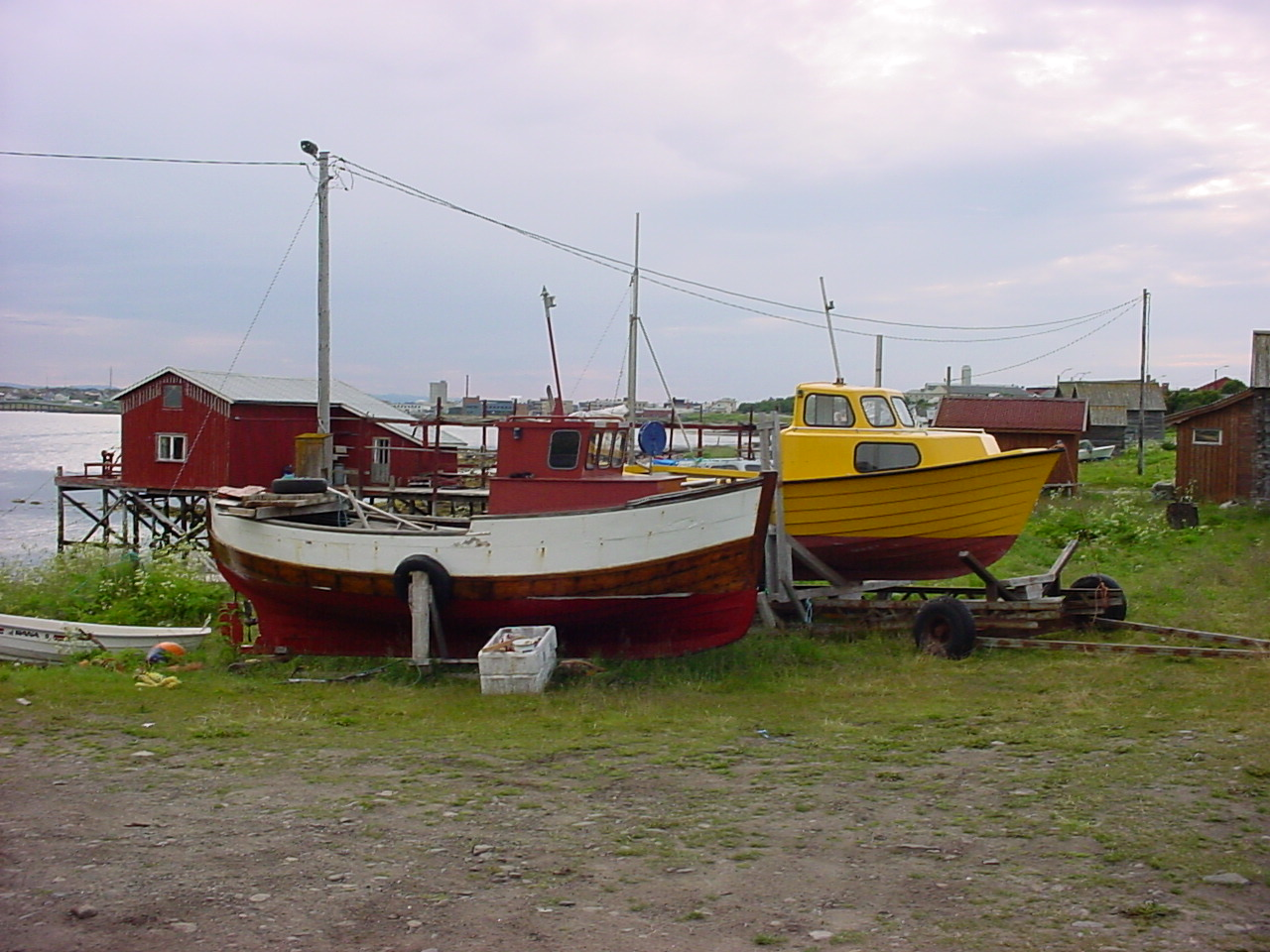 Fishing boats on land in Vadsø, North Norway